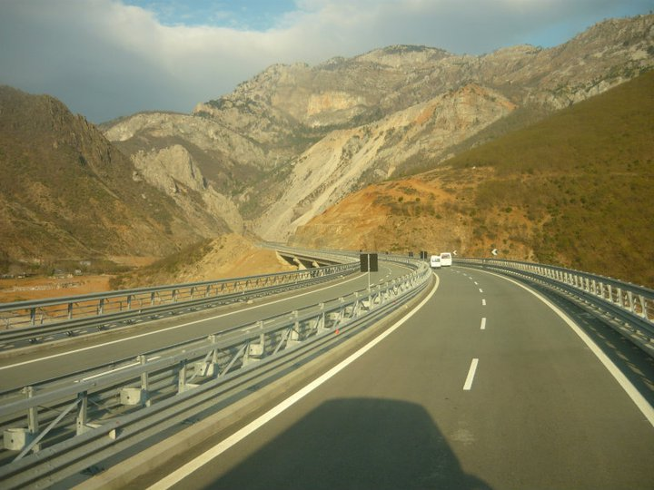 The A1 motorway